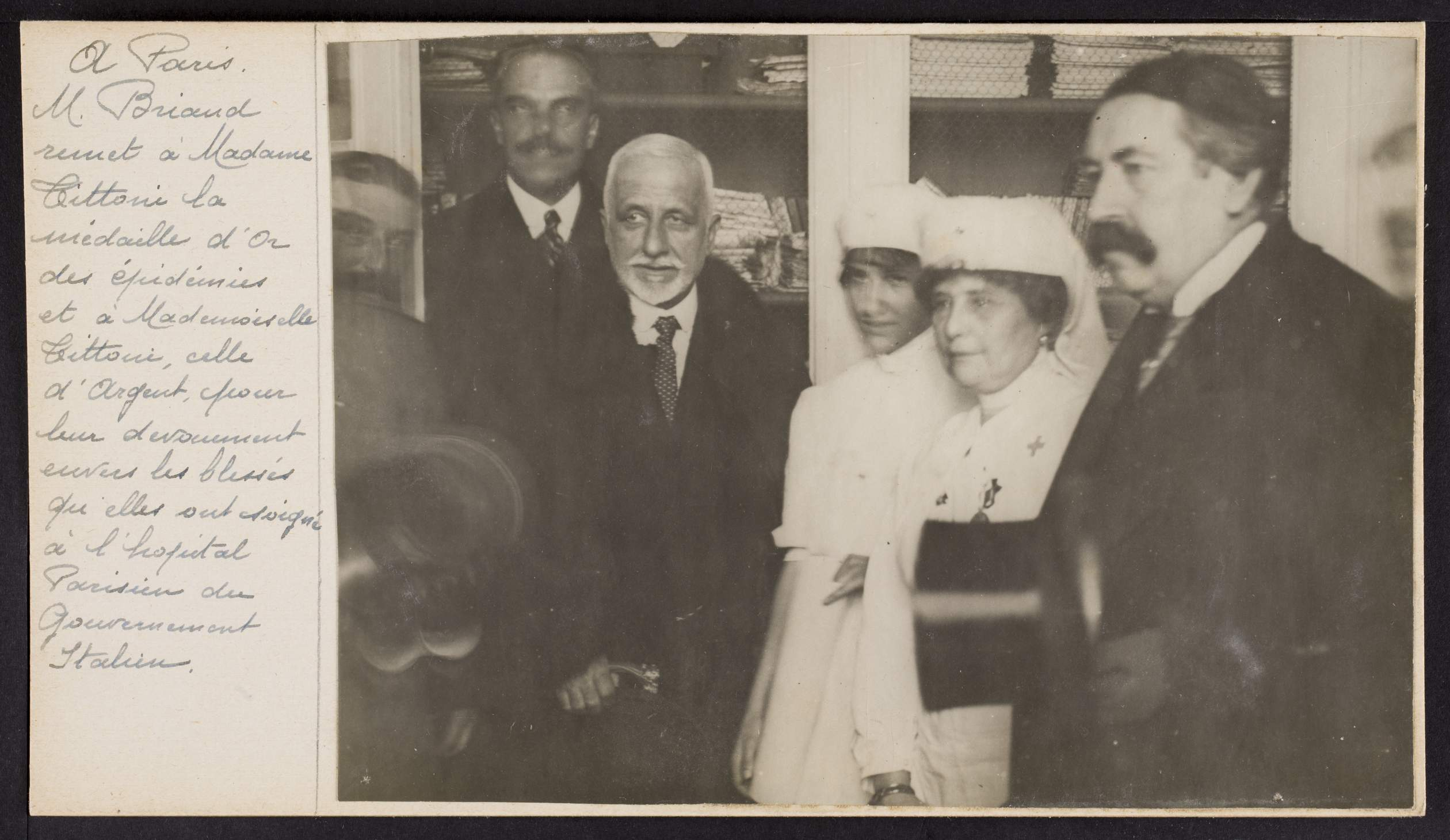 A Paris. M. Briand remet à madame Tittoni la médaille d'or des épidémies et à Mlle Tittoni celle d'argent pour leur dévouement envers les blessés qu'elle ont soigné à l'hôpital parisien du gouverneur italien.